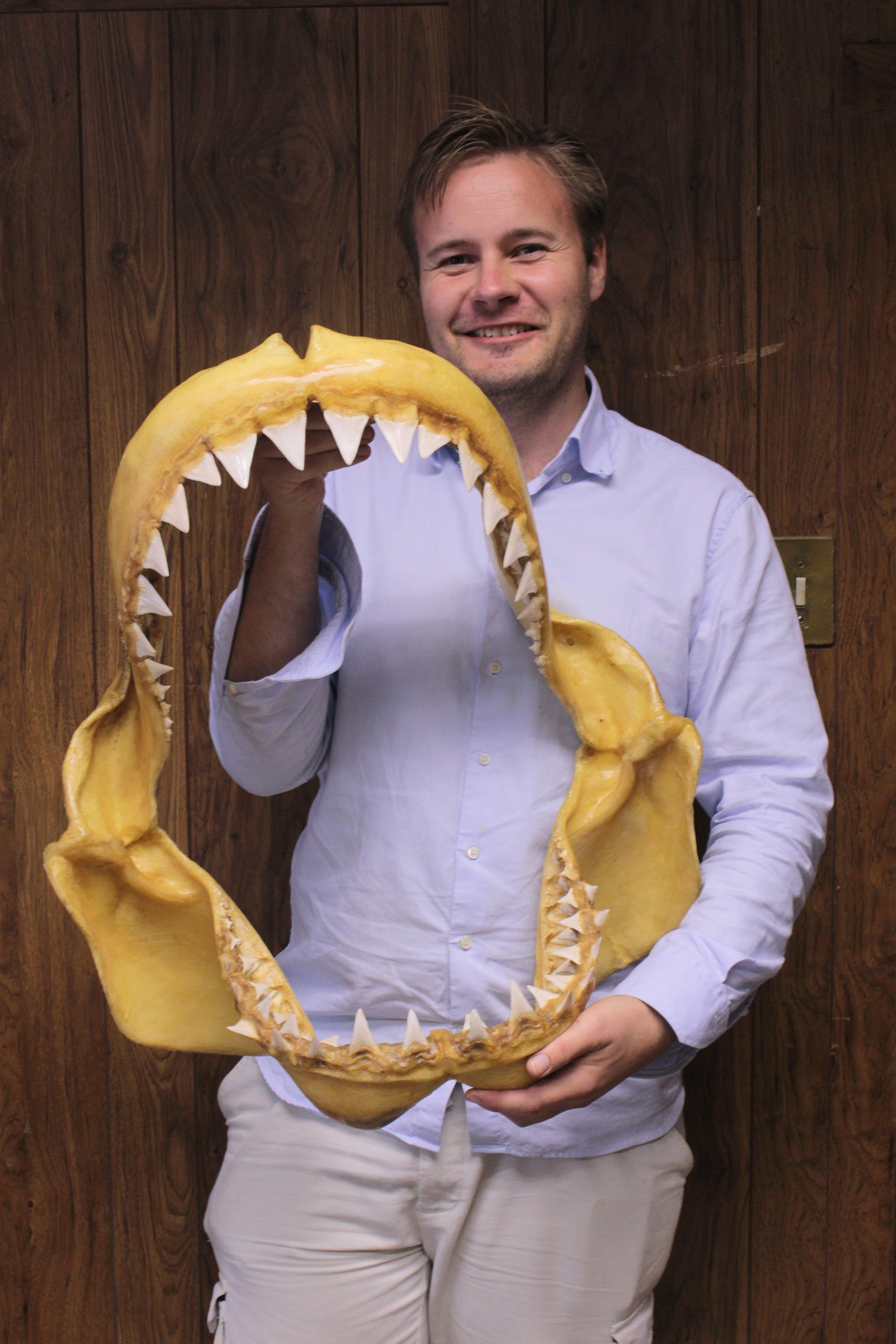 KwaZulu-Natal Sharks Board white shark jaw from South Africa. An adult TL 4.7 m specimen (RBDS42). Man in picture David Bernvi